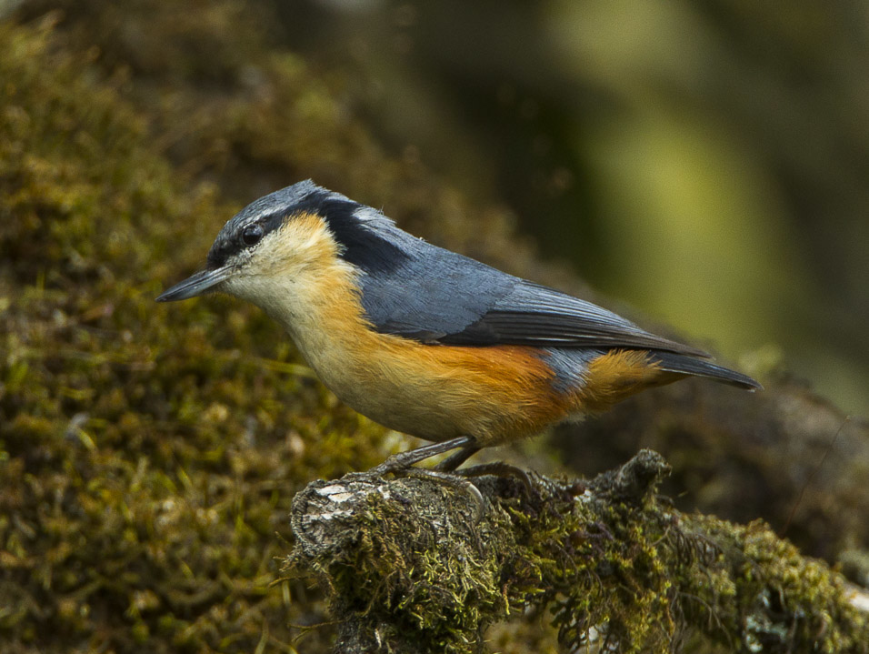 White-tailed Nuthatch Sitta himalayensis Pele La, Bhutan.